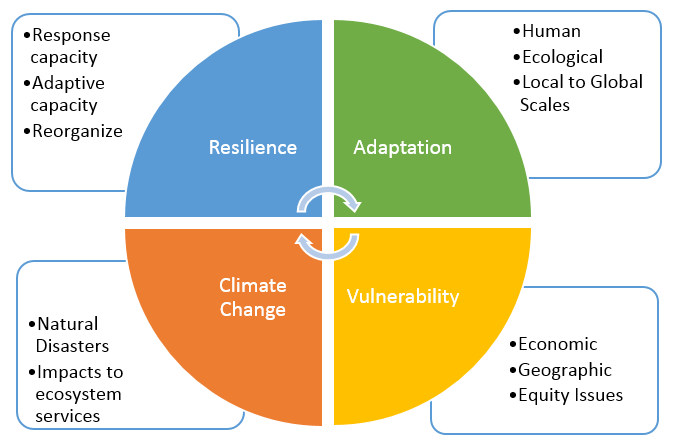 A graphic displaying the interconnectivity between climate change, adaptability, vulnerability, and resilience; for climate resilience